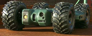 from